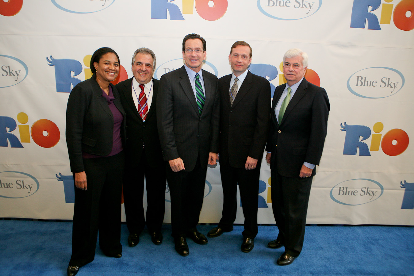 Premiere of Blue Sky Studio's animated film "Rio" at CT Science Center: Vanessa Morrison, Fox Animation Studios president; James Gianopulos, Fox Entertainment Chairman and CEO; Dannel Malloy, Governor; Brian Keane, Blue Sky Studios CEO; and Christopher Dodd, MPAA Chairman.